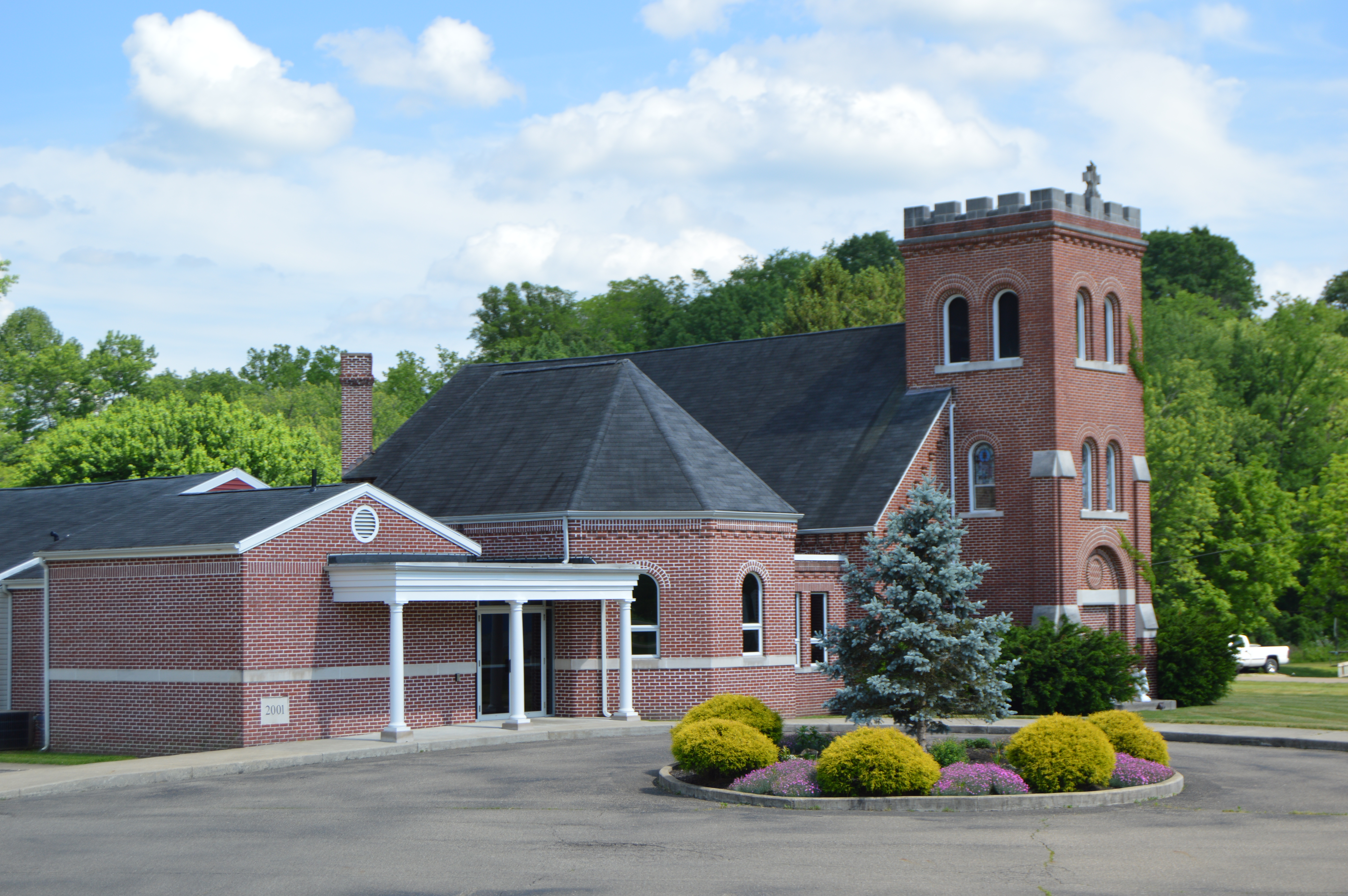 View from the northwest of St. Mary of the Hills Church (formerly St. Patrick Church), located along State Route 78 at 17645 Bank Street in the Athens County section of Buchtel, Ohio, United States.